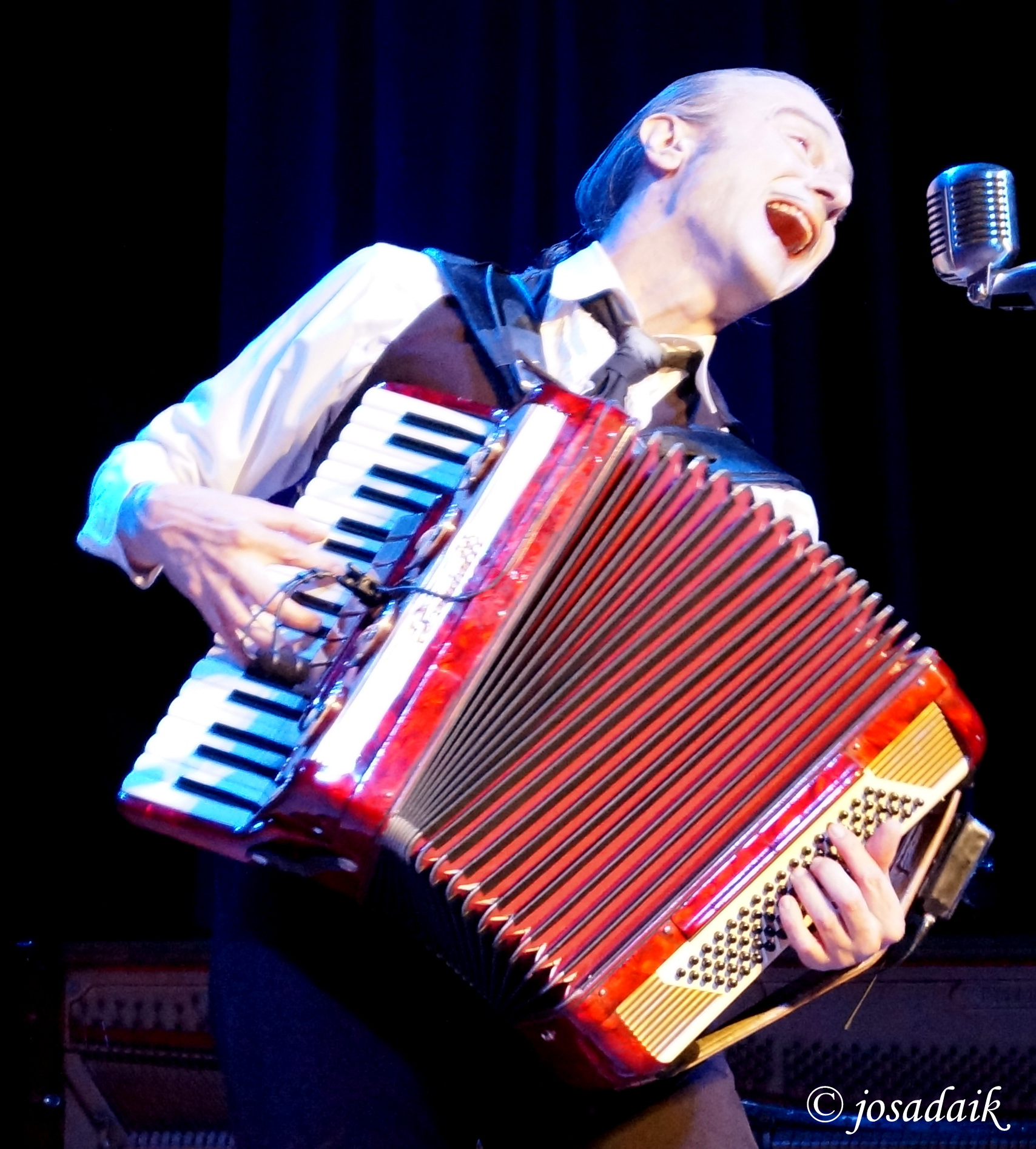 Brazilian actor Nico Nicolaiewsky in Tangos e Tragédias